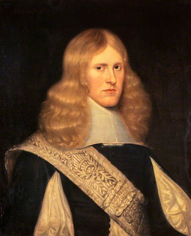 unknown artist; painting traditionally said to be of Archibald Campbell (1629-1685), 9th Earl of Argyll, but subsequently identified as his father the 8th Earl and 1st Marquis of Argyll (Scottish Notes and Queries, v 11, pp.5-6)